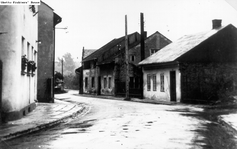 Street of the ghetto of Andrychow